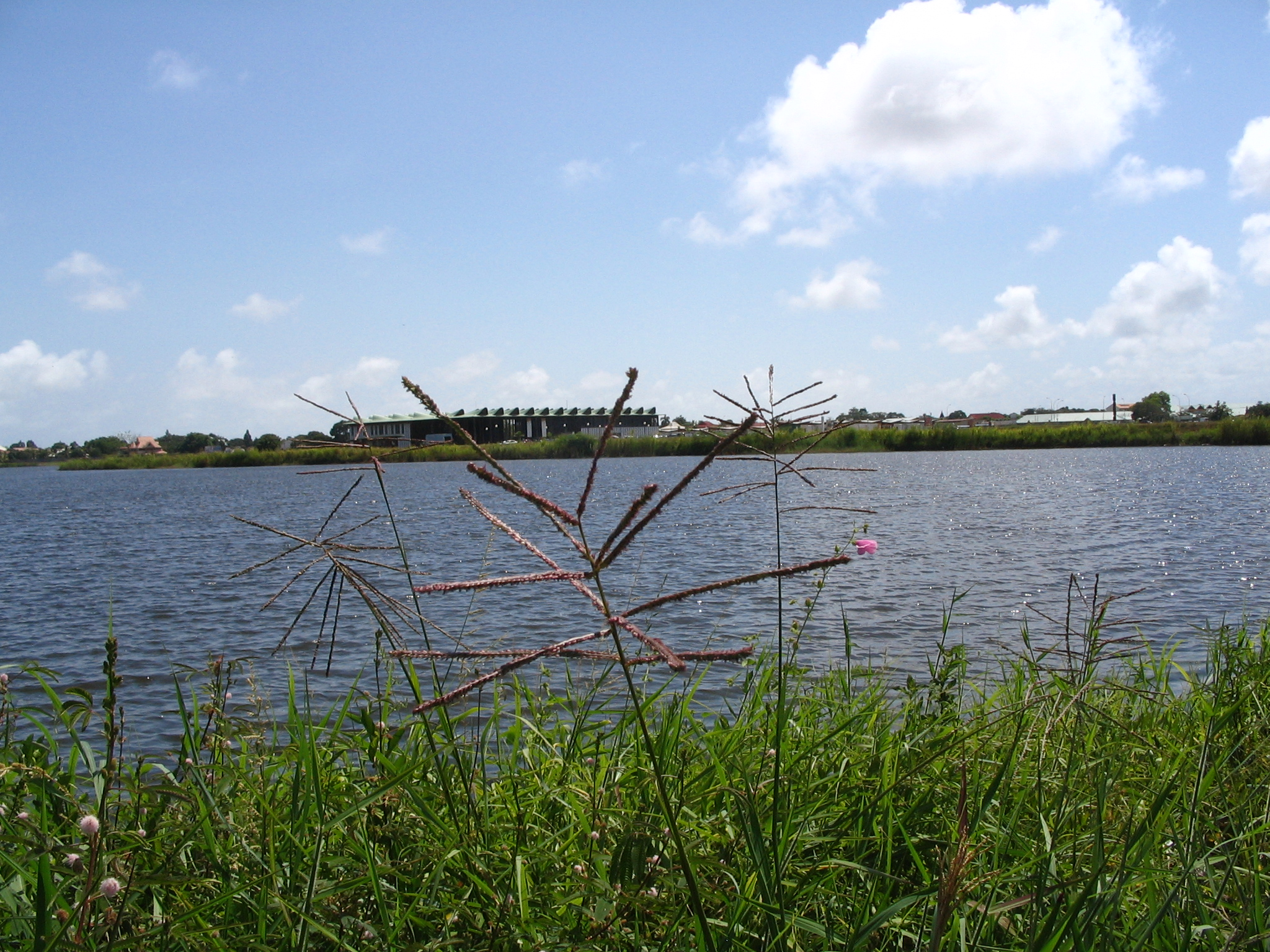 A thin, delicate plant that grows very fast and has tiny purple flowers. The building on the other side of the lake is Kourou's library. Taken in Kourou, French Guiana (Amazonia) on 7 November 2005.